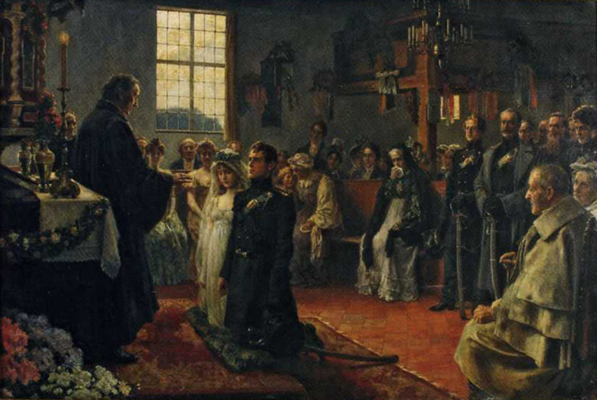 The painting is reminiscent of the benediction of the Lützow Volunteers in the Lutheran church in the village of Rogau on March 27, 1813. Among the figures portrayed are Adolf von Lützow (in the gray military coat), Friedrich Friesen, the cofounder of German gymnastics, fraternity brother, and educator (to the left of Lützow), Friedrich Ludwig Jahn, the "Father of Gymnastics" (to the right of Lützow), and Theodor Körner.